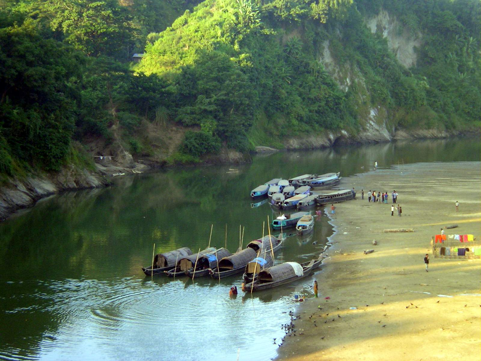 Boats herded by the bank of Sangu in Bandarban, photographed from a bridge over the river, just outside Bandarban town.